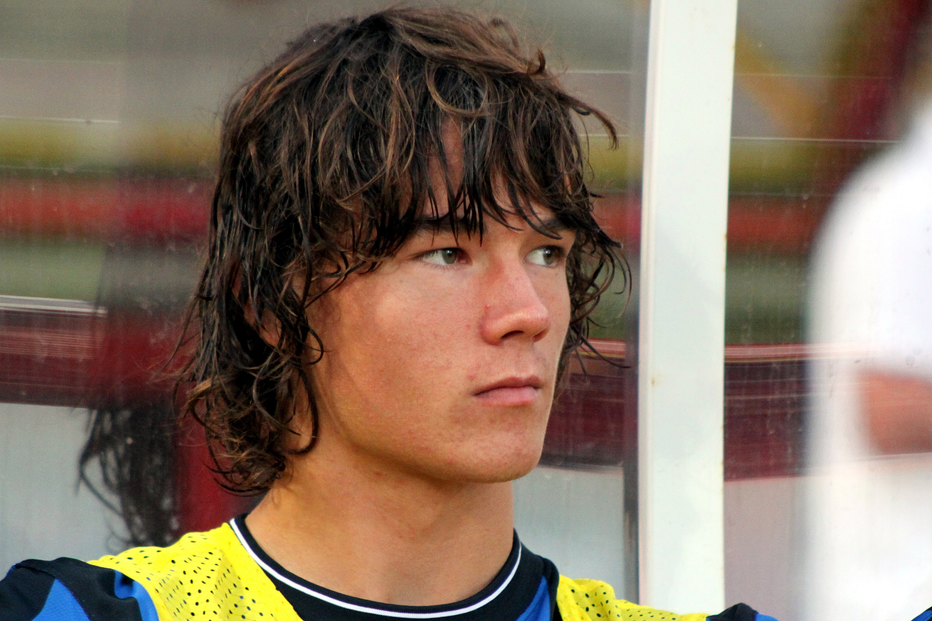 Rene Krhin - F.C. Internazionale Milano